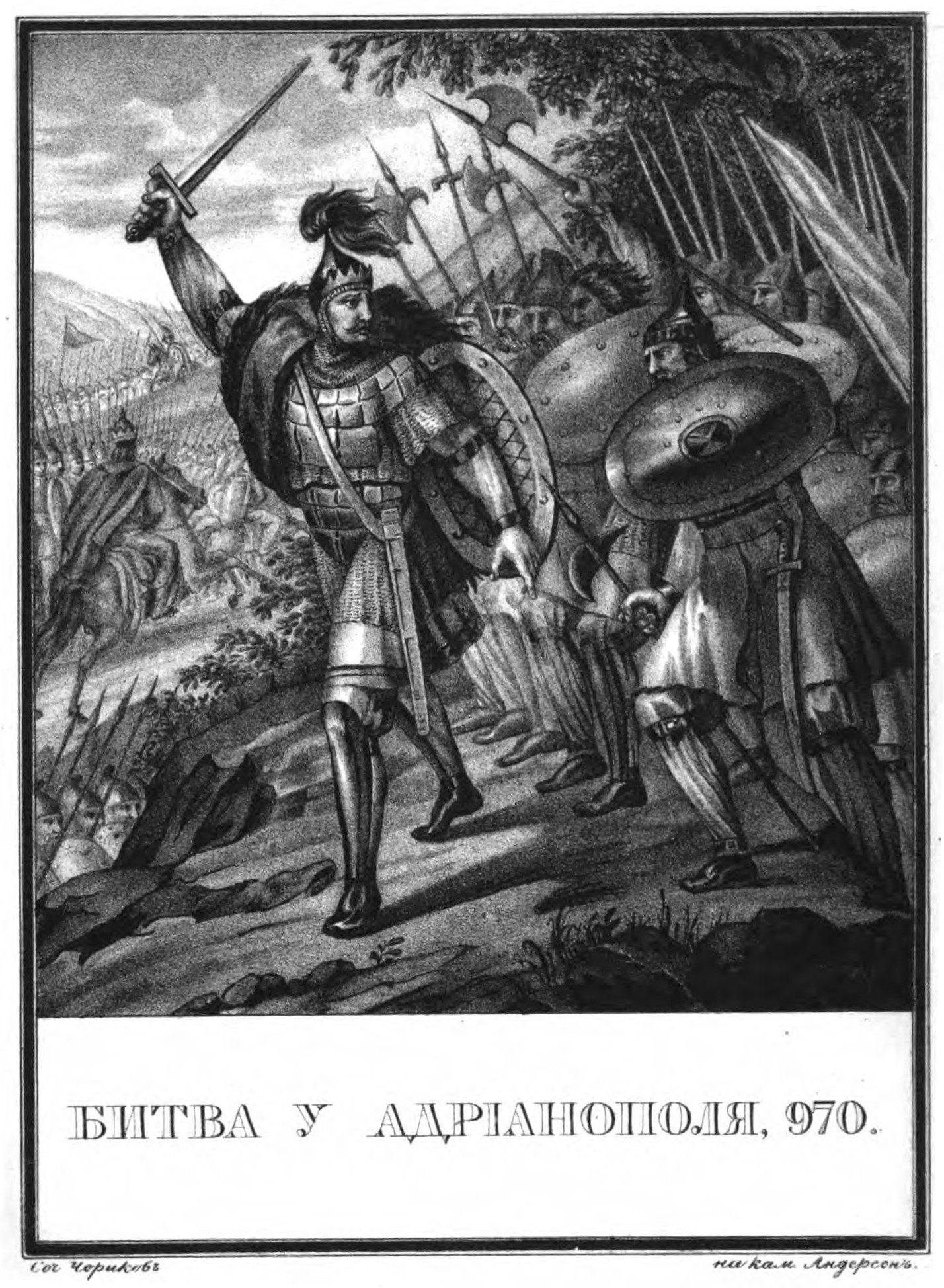 Illustration plate from the book Живописный Карамзин (1836), depicting the history of Russia.